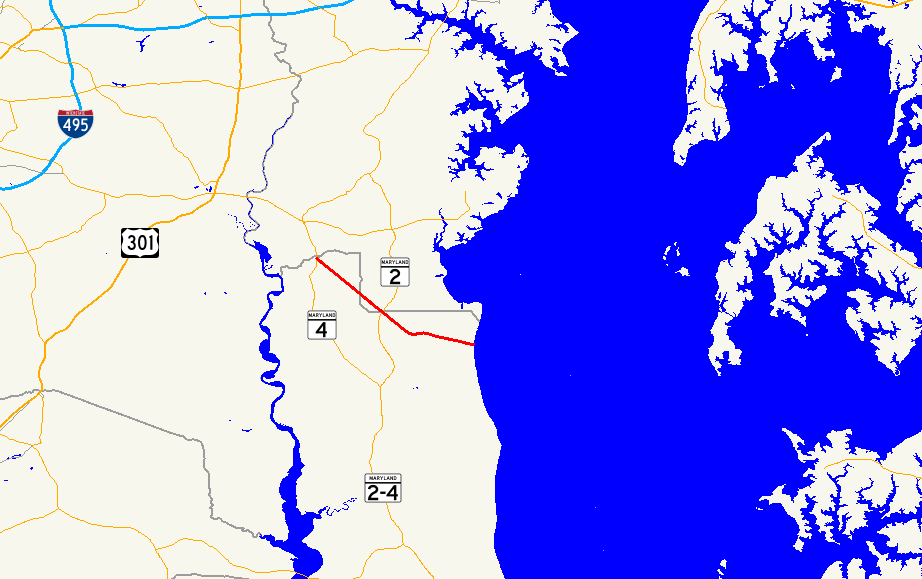 Map of Maryland Route 260